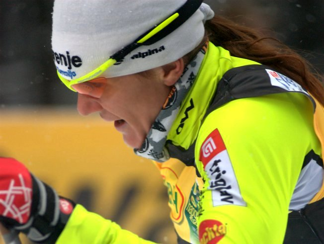 Petra Majdic at the Tour de Ski 2010 in Oberhof